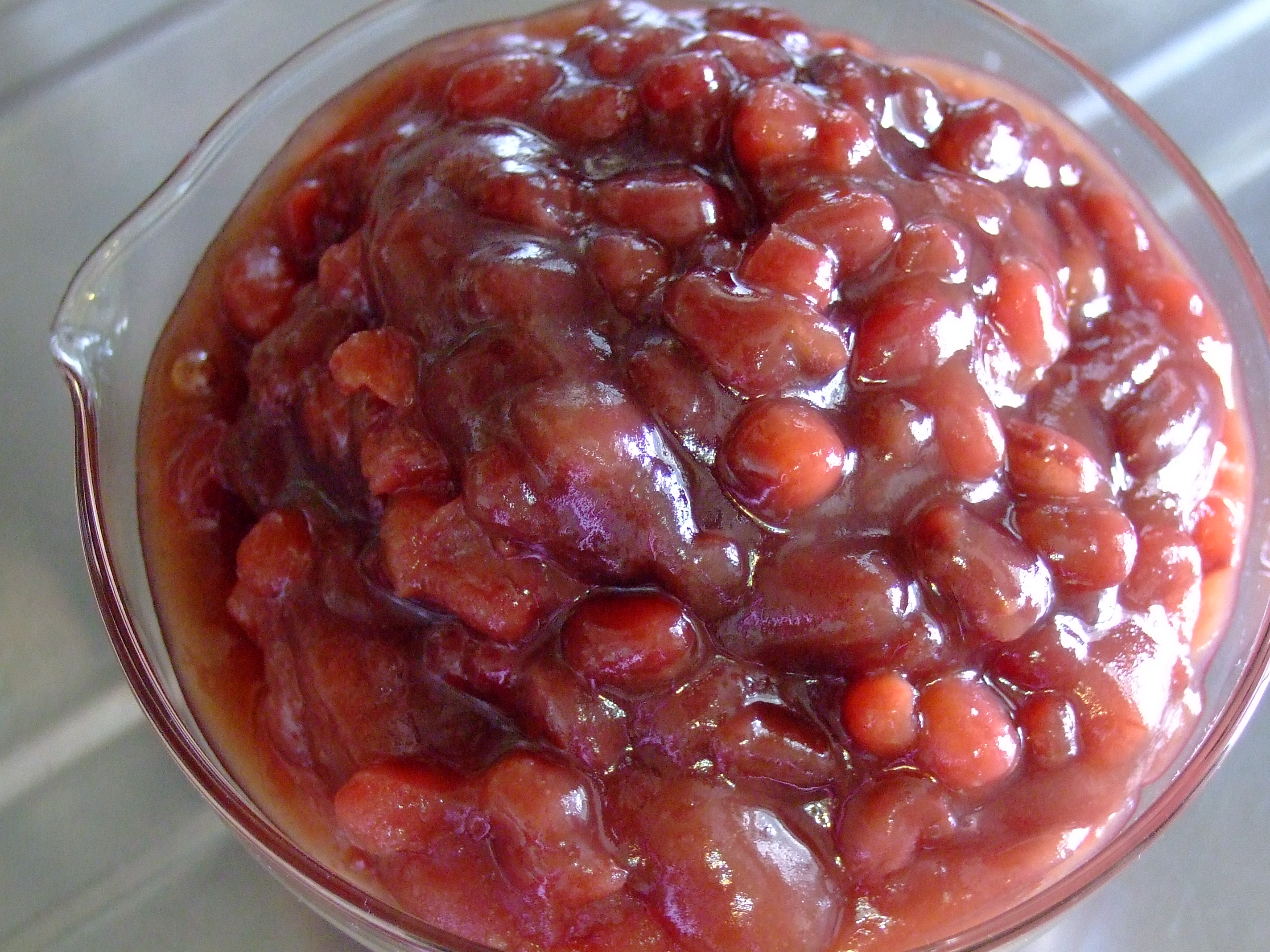 Granular red bean paste